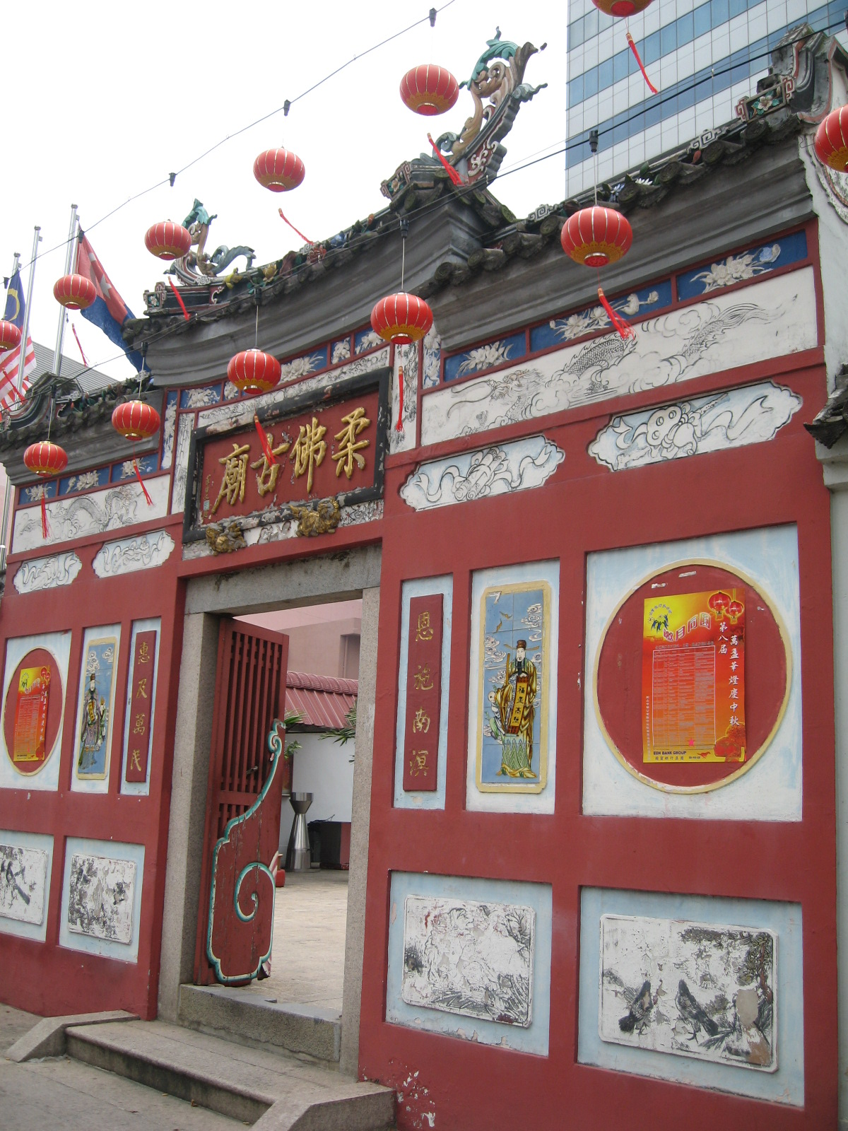 Johor Bahru Old Chinese Temple.